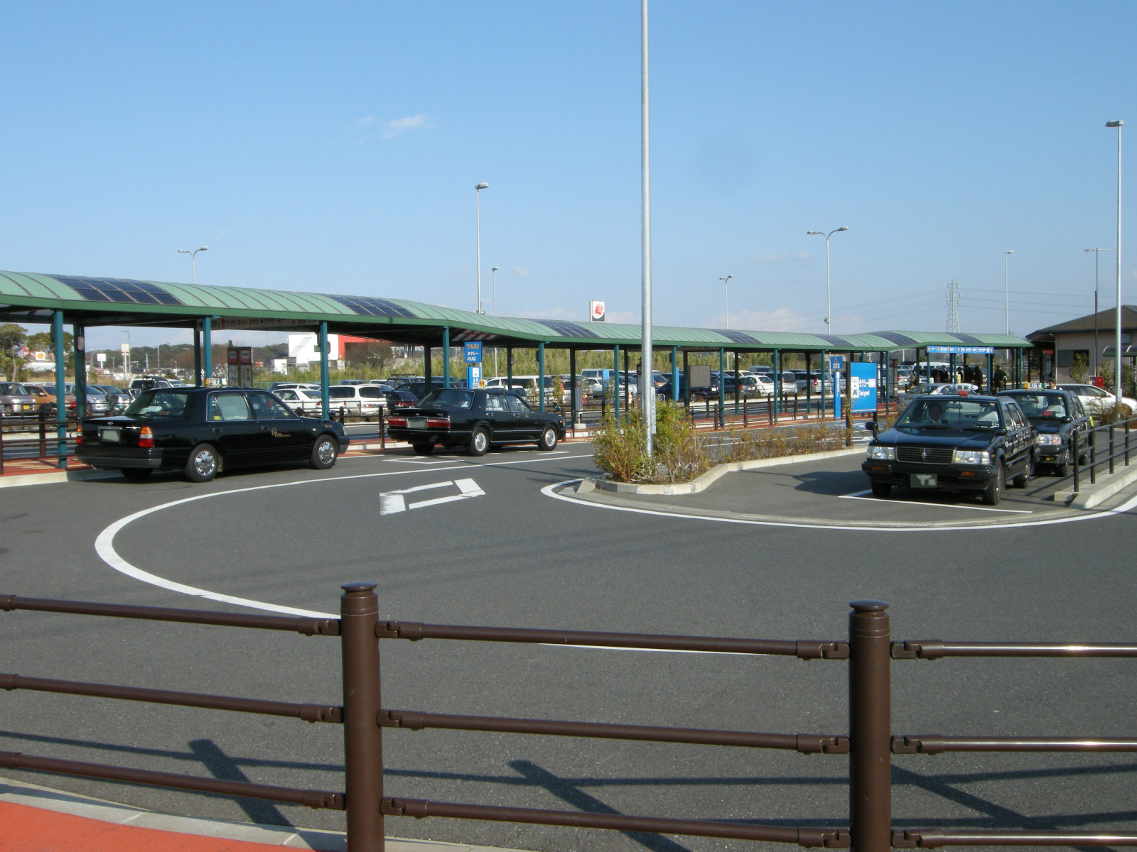 Rotary of Sodegaura Bus Terminal in Chiba, Japan